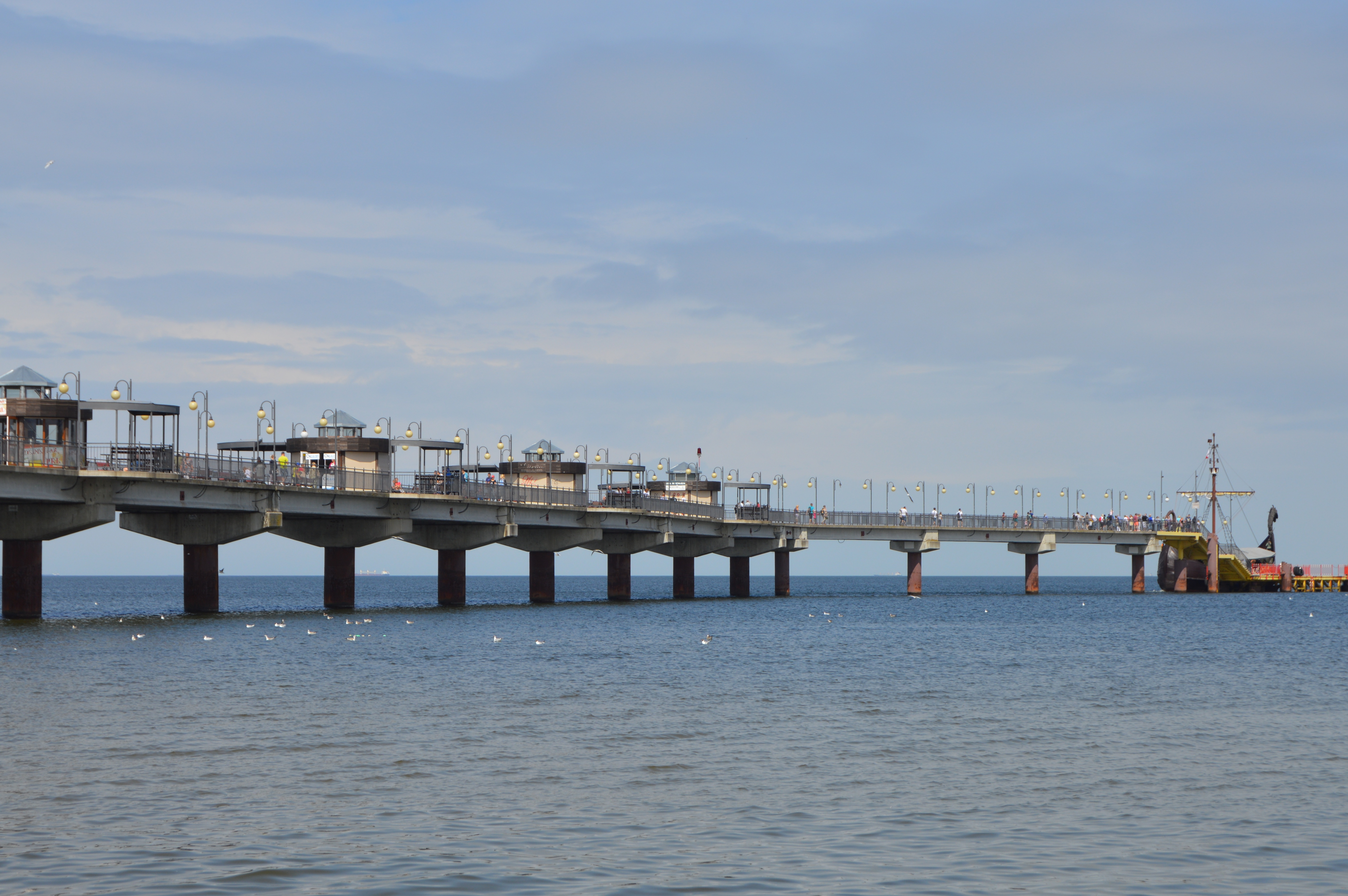 The Międzyzdroje Pier is 395 metres in length; during my holidays I went to Międzyzdroje (Wolin) in Poland and took various photographs of the town, and area.